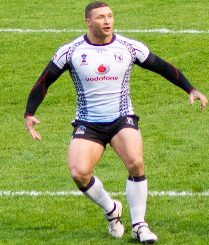 2013 Rugby League World Cup match between Samoa and Fiji at Halliwell Jones Stadium in Warrington.